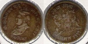 Coin of Gwalior, Indian princely state: 1/2 anna 1942. Depicting Maharaja Jivajirao Scindia.